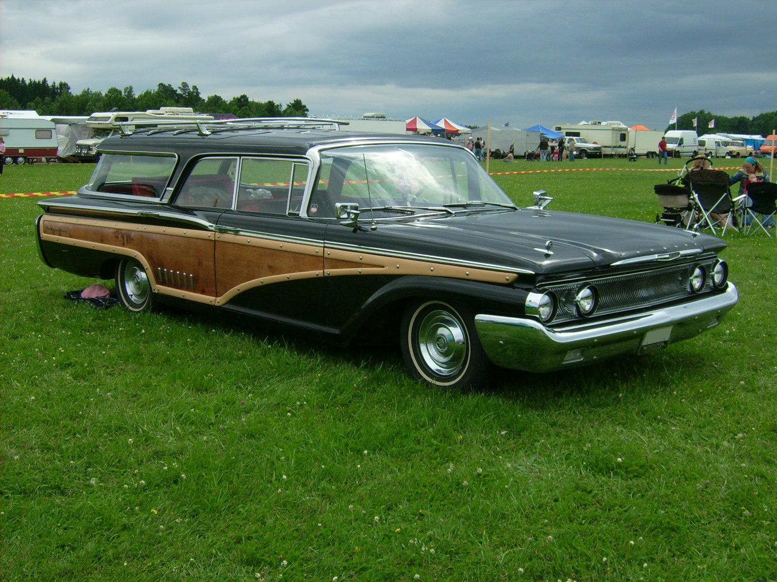 1960 Mercury Colony Park, one of 7411 built that year, at Power Big Meet 2007, Västerås, Sweden